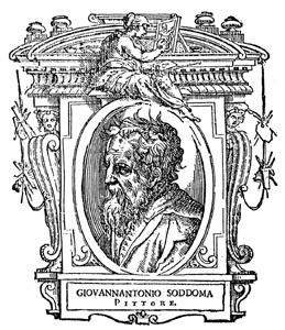 Illustratio from "Le Vite" by Giorgio Vasari, edition of 1568. For the artist portrayed see filename